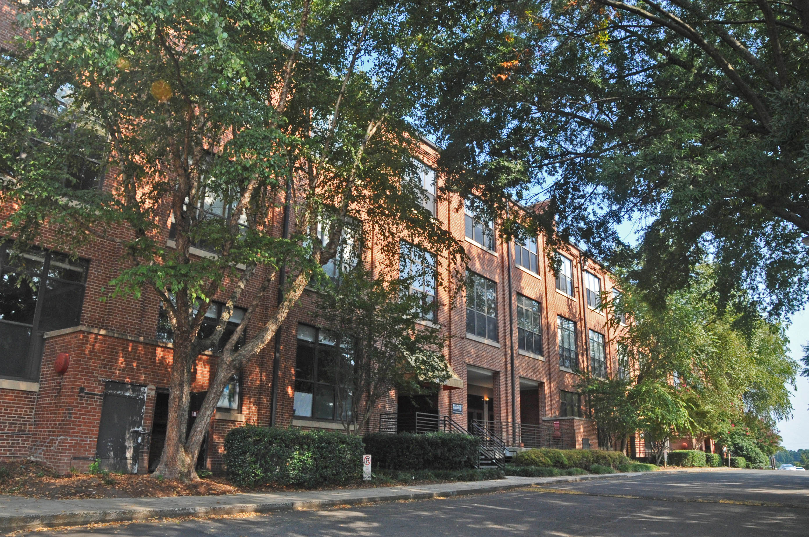 BUILT IN 1927. THE LAST OF DURHAM'S DISTINCTIVE BRICK TOBACCO WAREHOUSES NOW CHANGED INTO CONDOMINIUMS